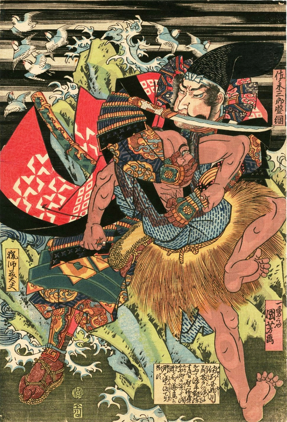 An ukiyo-e of Sasaki Moritsuna who kills a fisherman.